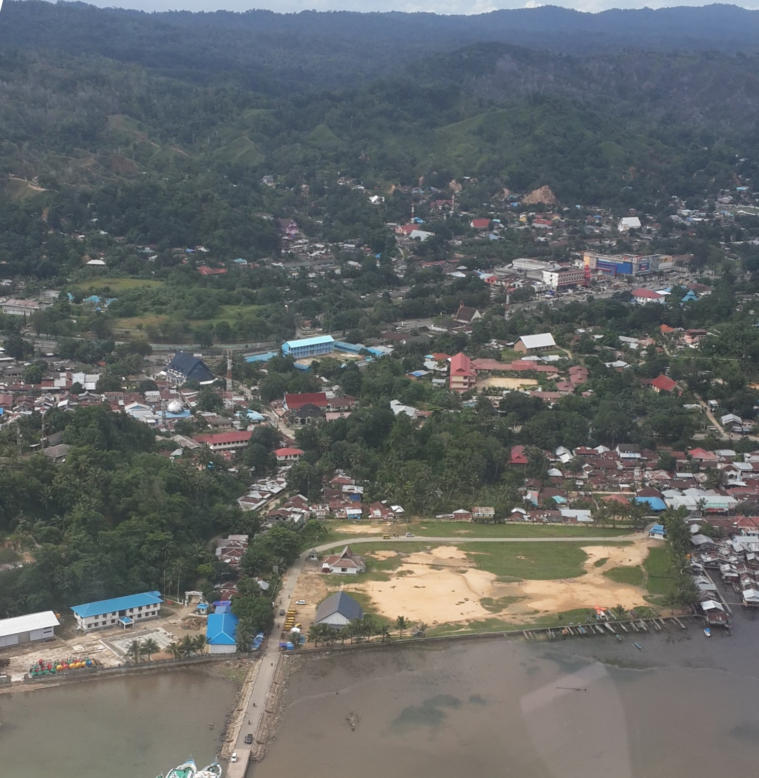 Sorong, West Papua, Indonesia